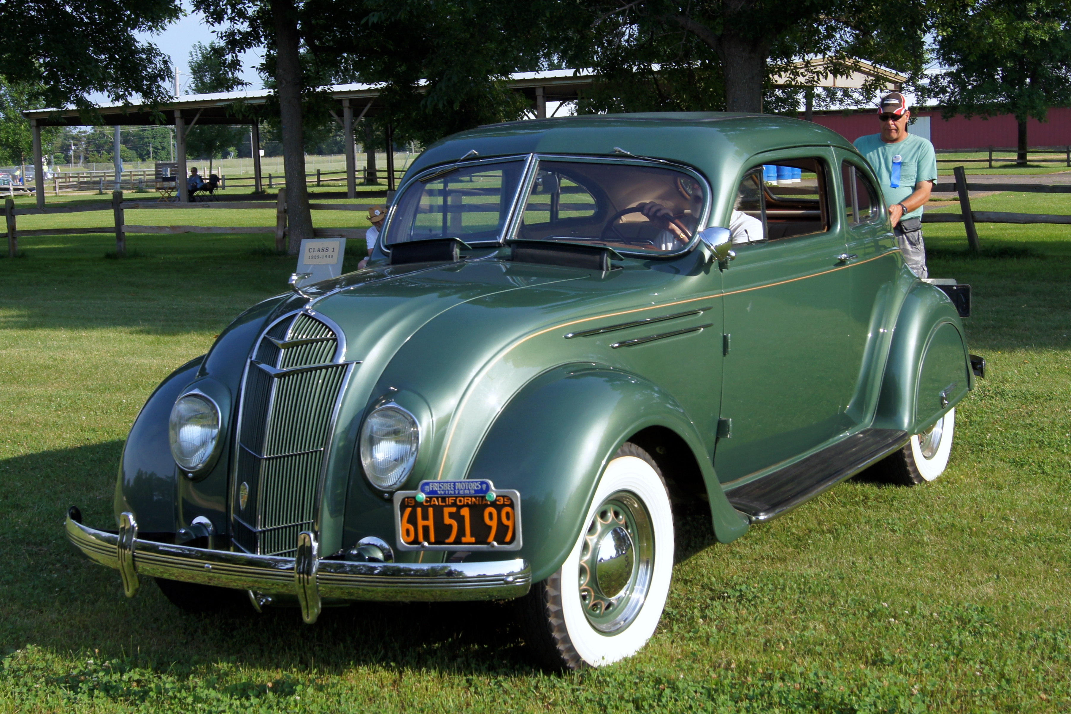 1st Combined Convention 28th Annual National DeSoto Club Convention & 44th Annual Walter P.Chrysler Club Convention July 17 - 21, 2013 Lake Elmo, Minnesota Click link below for more car pictures